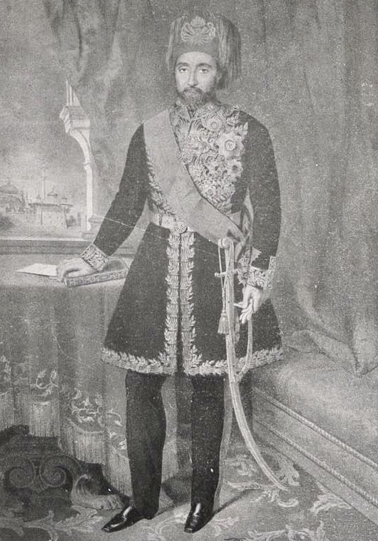 Koca Mustafa Reşid Pasha (literally Mustafa Reşid Pasha the Great; 13 March 1800 – 7 January 1858) was an Ottoman statesman and diplomat, known best as the chief architect behind the Ottoman government reforms known as Tanzimat. Pictured Mustafa Reşid Pasha wearing the court uniform.